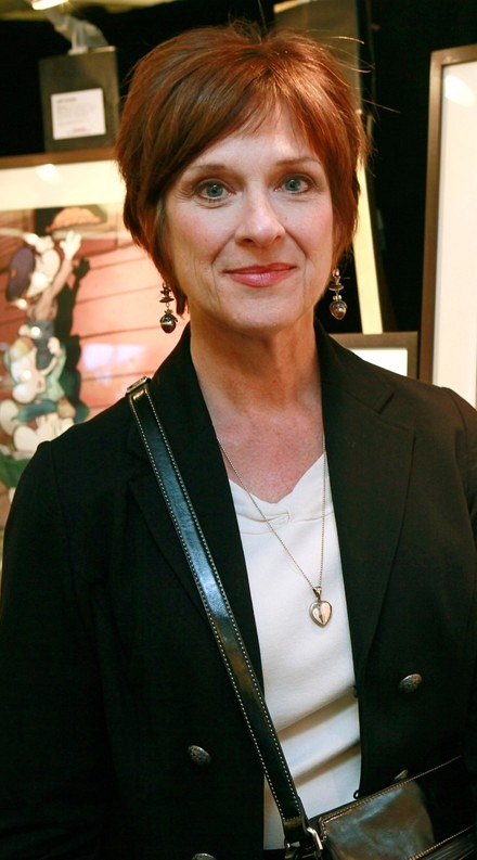 Mary GrandPré, illustrator of the Harry Potter series, who contributed original artwork to a month-long online charity auction to support literacy in New York, Thursday, May 5, 2011. GrandPre and 11 other renowned children's illustrators participated in the launch of the auction at Scholastic's New York City headquarters.